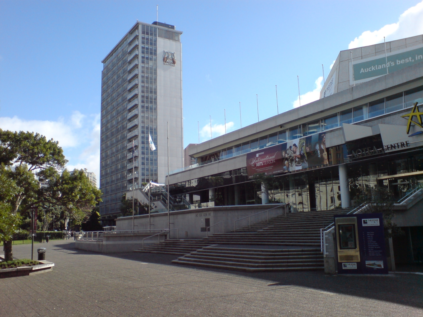 The Aotea Centre off Aotea Square in Auckland City, New Zealand. The Council's skyscraper in the back.